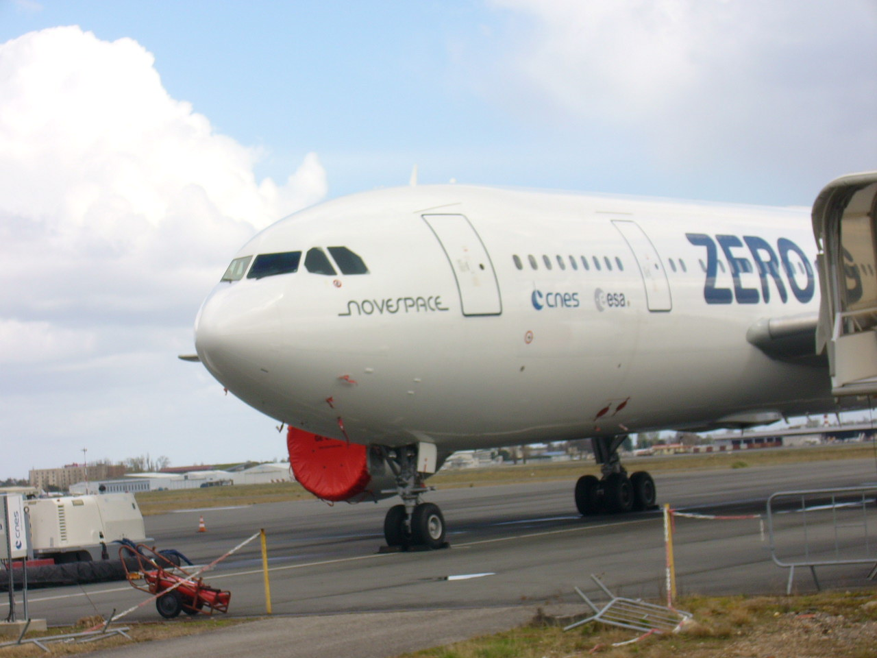 Airbus A300 ZERO-G Novespace airport Bordeaux Mérignac aircraft